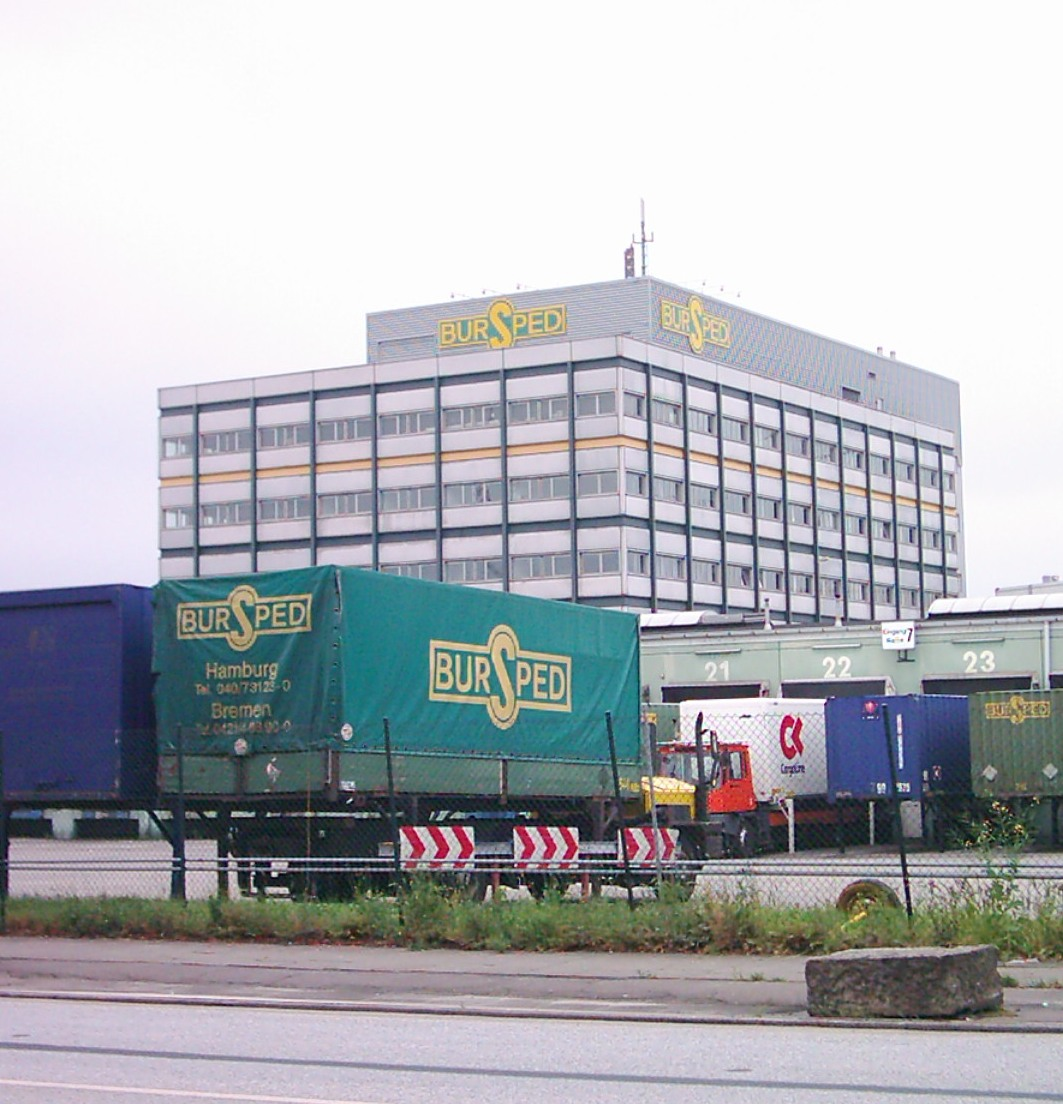 Freight forwarder BurSped, Hamburg, Germany.